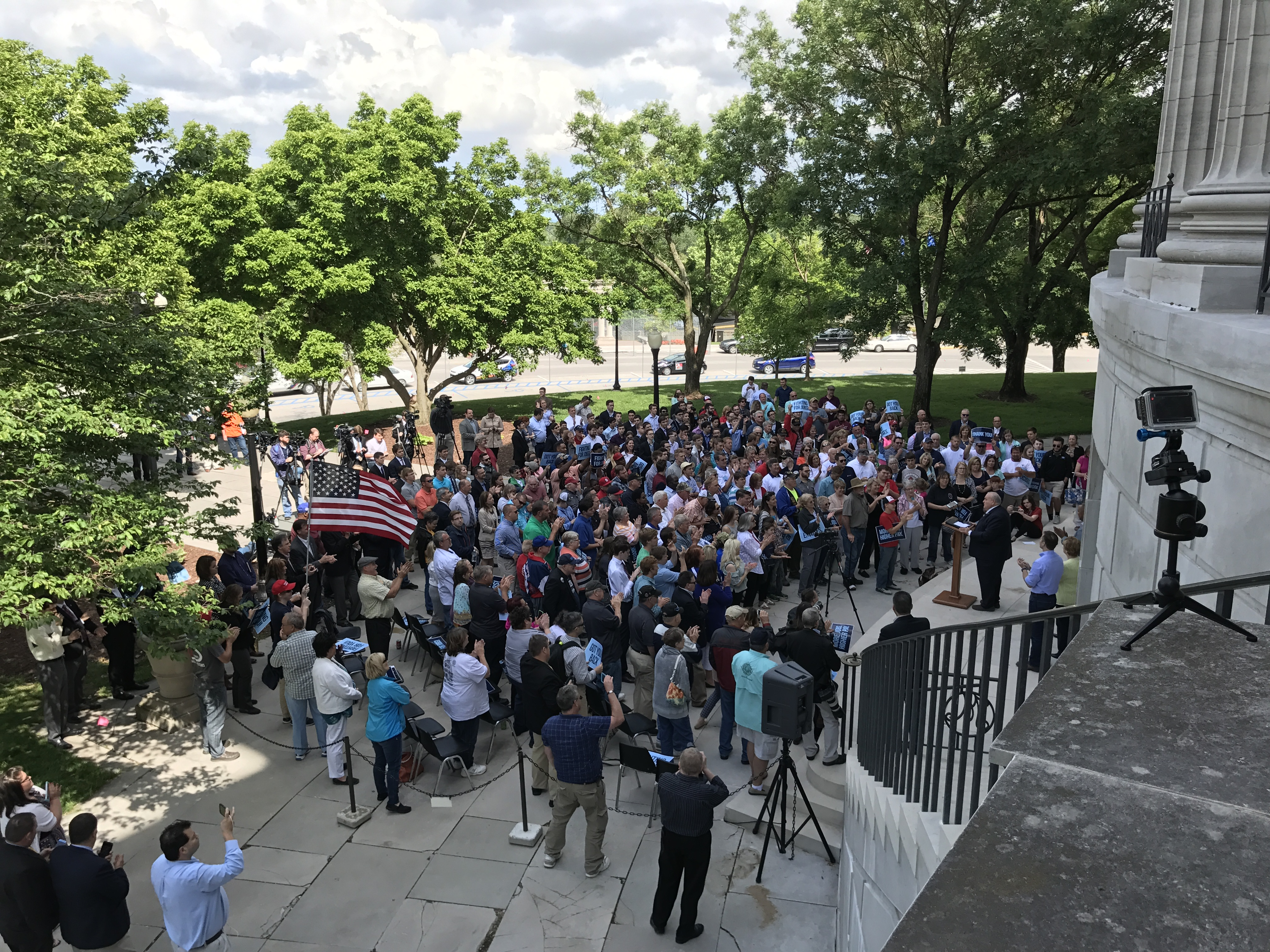 Hundreds of workers from southeast Missouri rally outside the Governor's Office in support of Greitens and the 2017 Steel Mill Bill.